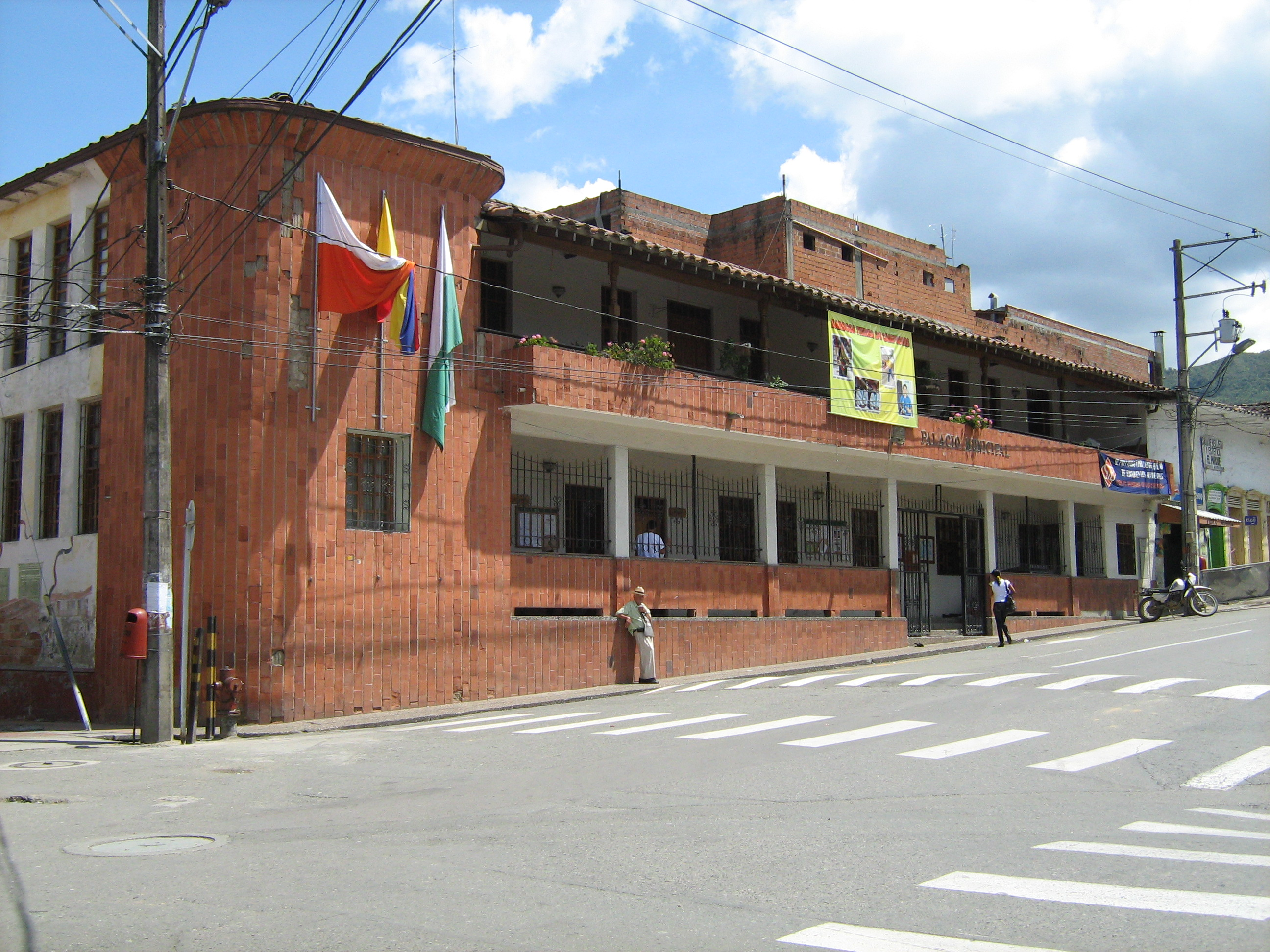 Town hall of Barbosa municipality, Antioquia, Colombia.